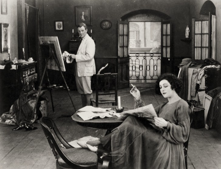 Charles Bryant and Alla Nazimova in the film Revelation (1918) - cropped screenshot